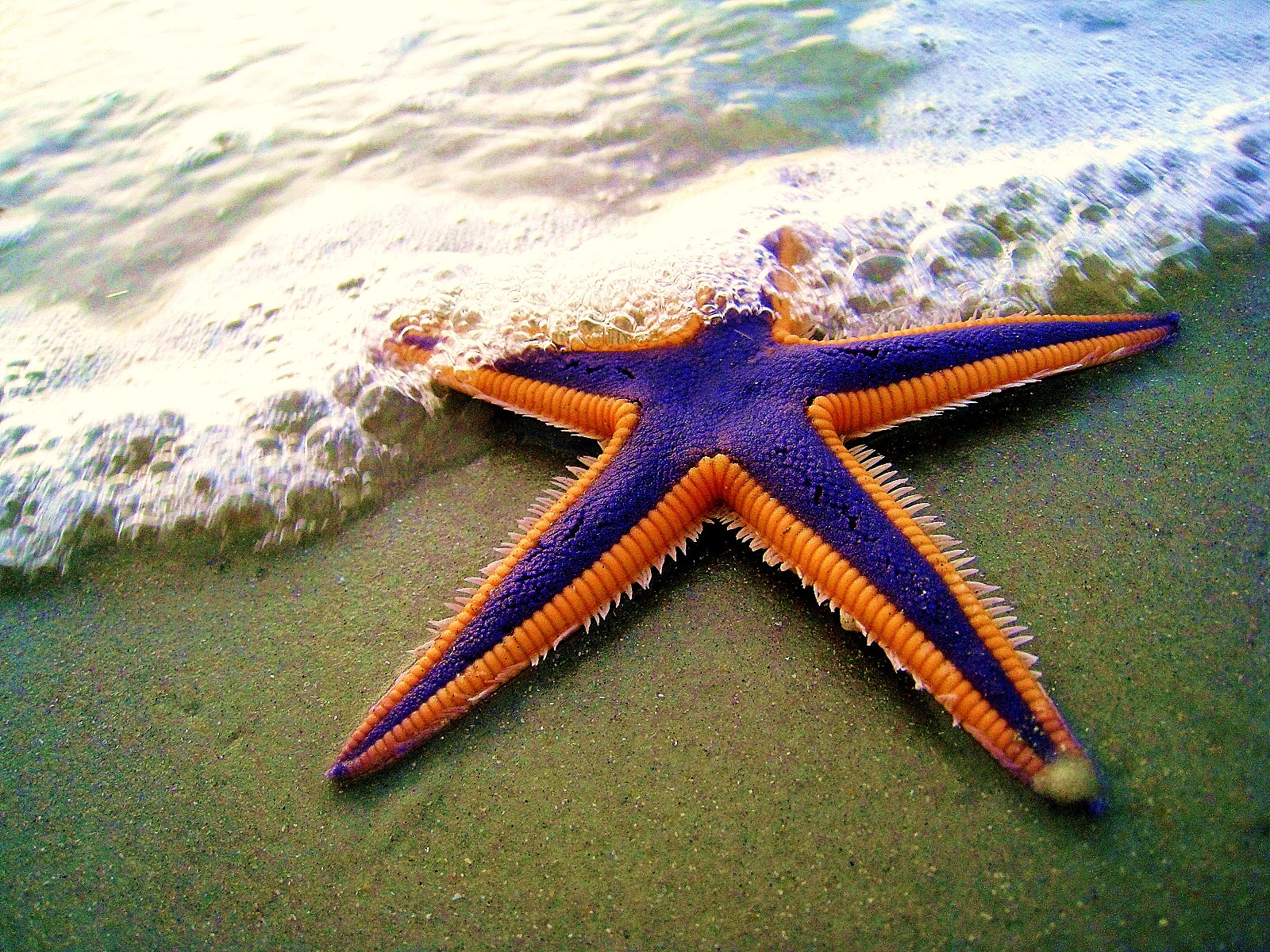 Royal starfish (Astropecten articulatus) on the beach.